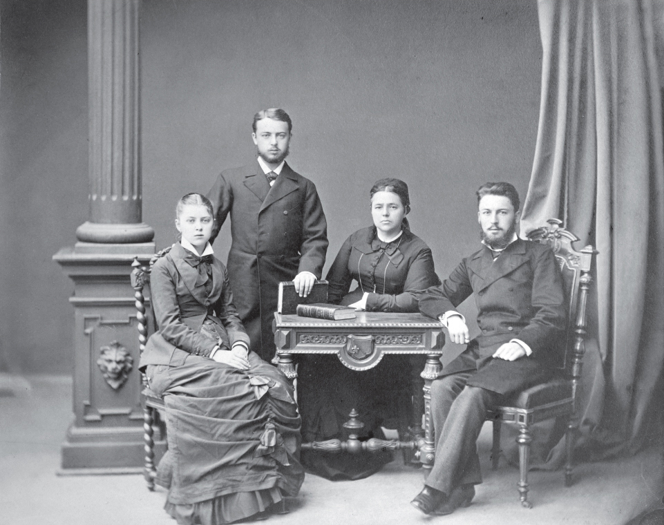 Fyodor Schechtels Family 1875